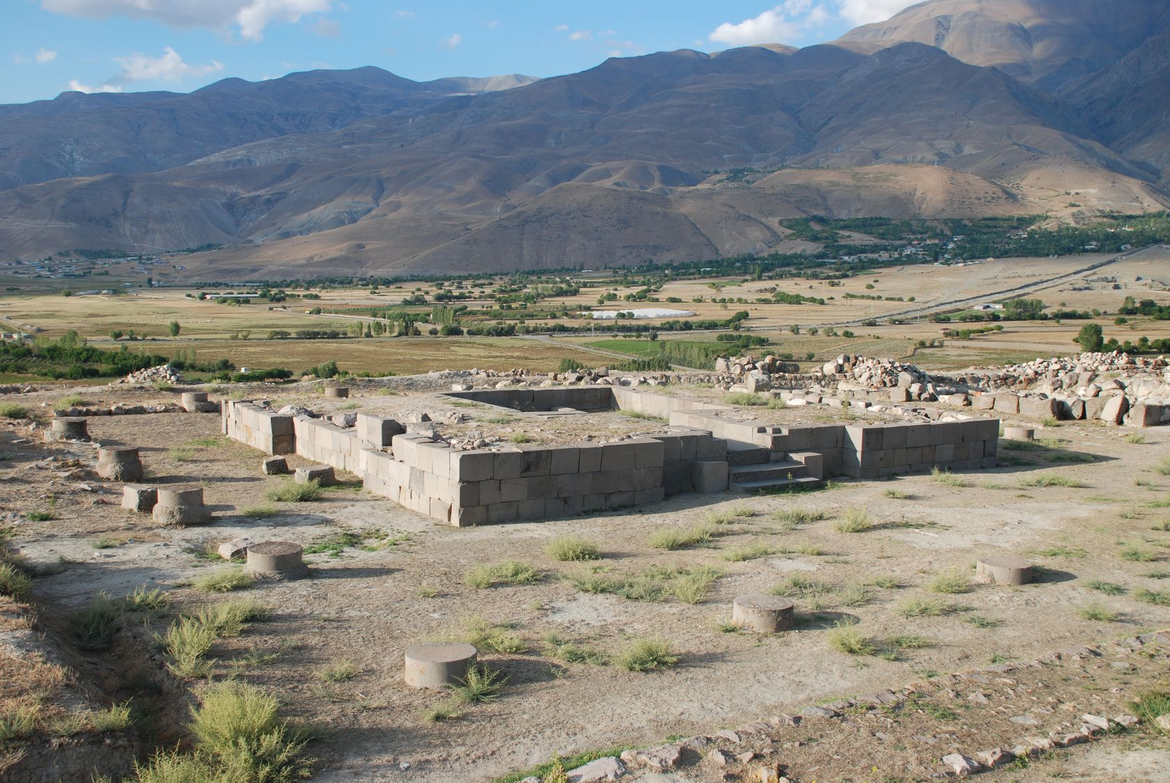 Altintepe, near Erzincan, temple